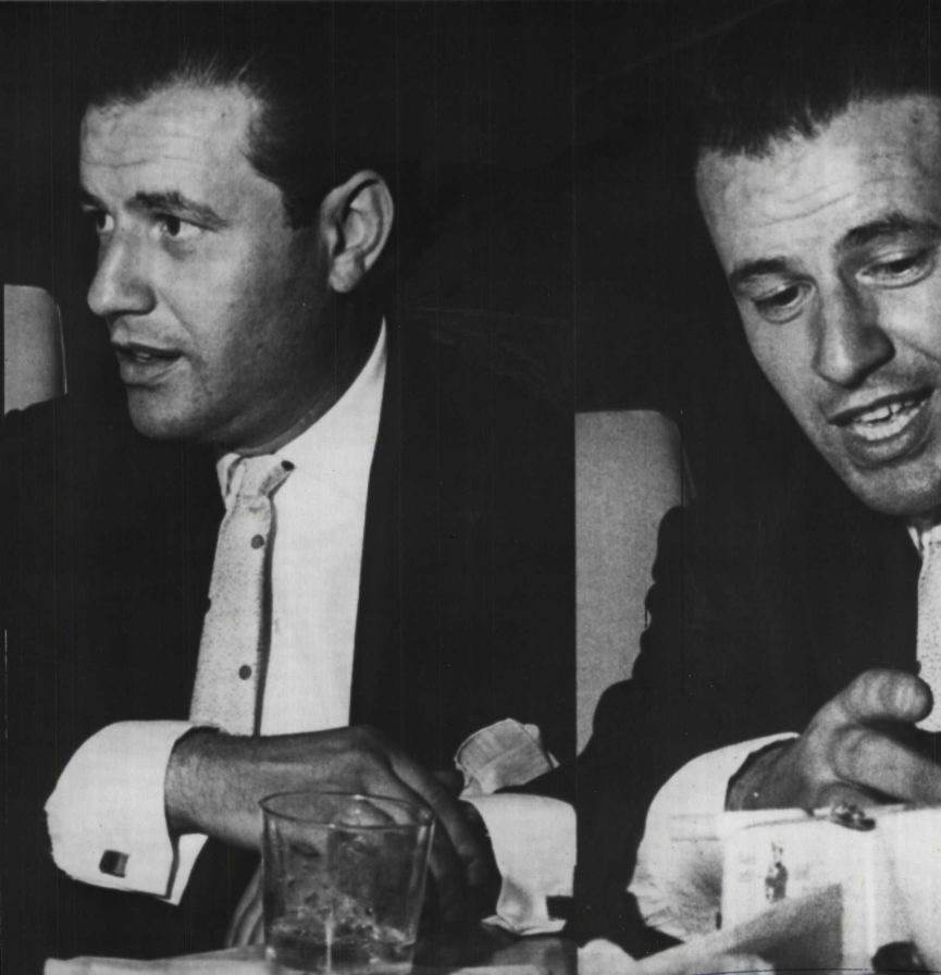 Guillermo Patricio Kelly (b.1922- 1 July 2005) was a argentine politician and activist, the leader of the Nationalist Liberation Alliance (ALN) of Argentina from 1953 to 1955. Arrested after the military coup in 1955, Kelly escaped and fled the country. He later returned to Argentina and became active again in left-wing politics.